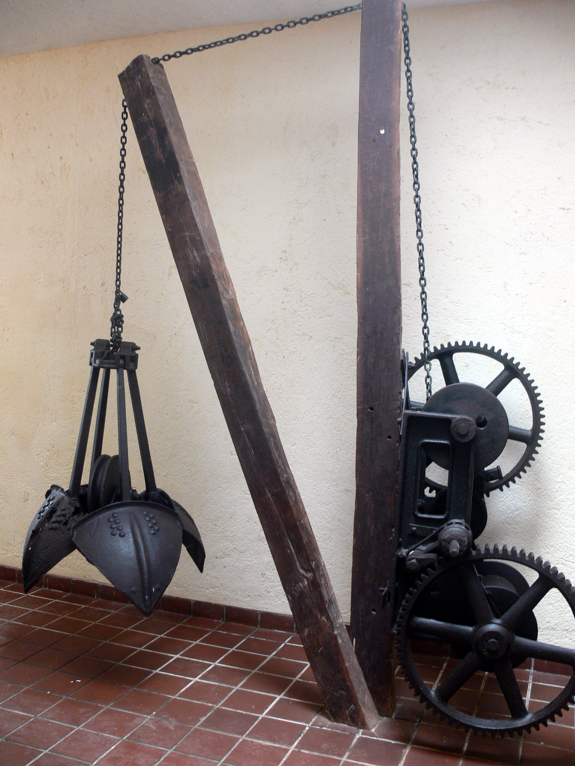 Chichén Itzá. Crane used by E.Thompson 1904-1907 for excavations in the holy cenote.